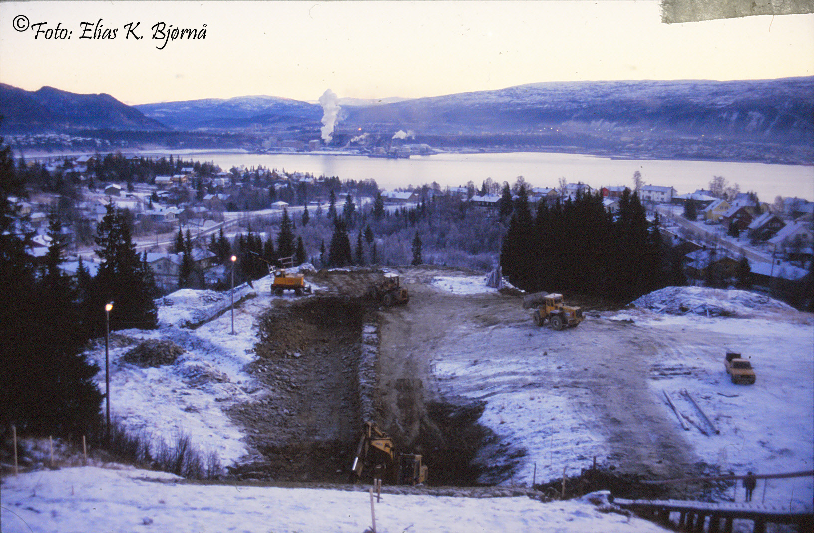 Anleggsarbeid 1987. Foto Elias K. Bjørnå